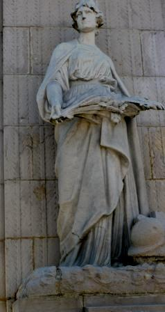 Part of the monument aux morts at Roye in the Somme